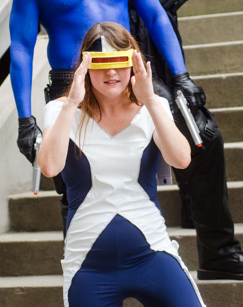 DragonCon 2012 - Marvel and Avengers photoshoot